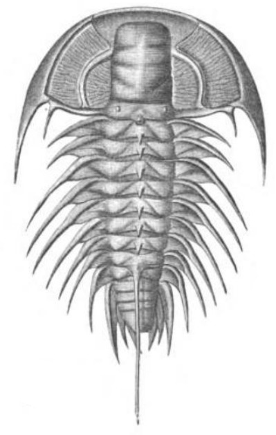 Zacanthoides typicalis (jr synonyms Olenoides typicalis)